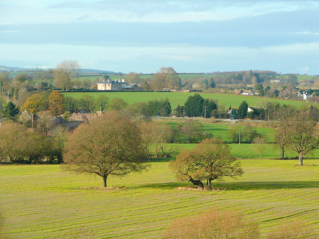 View over countryside west of Ross-on-Wye